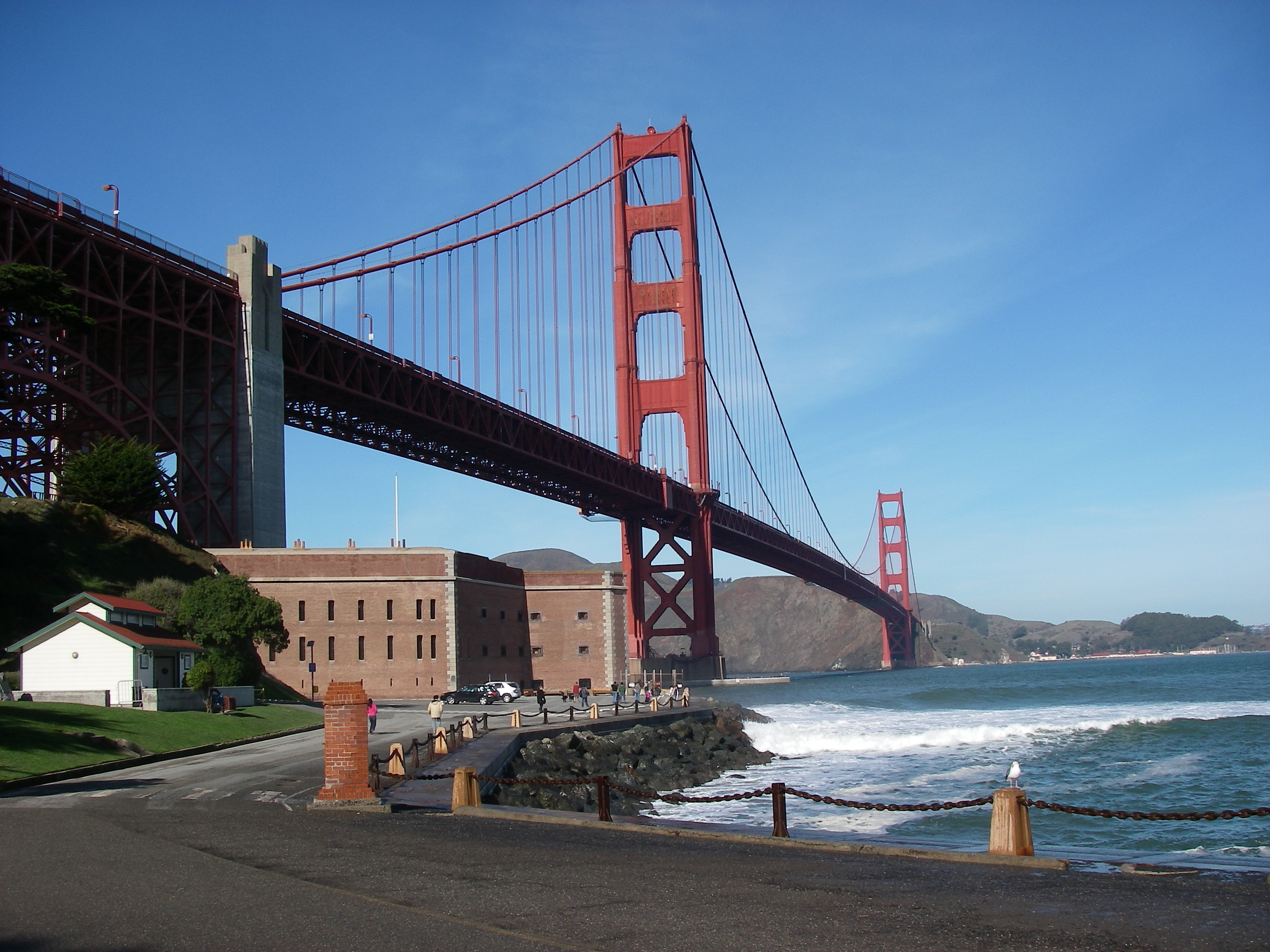 Fort Point nestled beneath the Golden Gate Bridge.